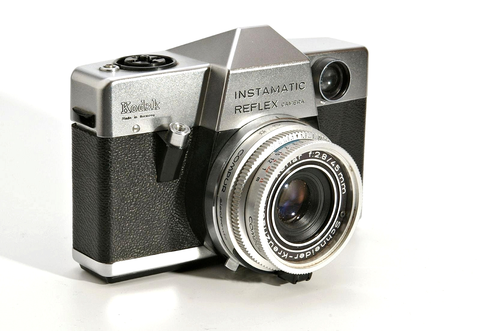 This is one of the slr's made for the 126 cartridge format. Zeiss and Rollei also made versions.